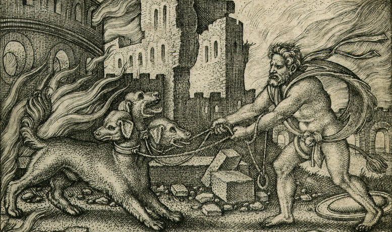 Beham, (Hans) Sebald (1500-1550): Hercules capturing Cerberus, 1545 (B., P. 104 iii/iii) from The Labours of Hercules (1542-1548). Final state.